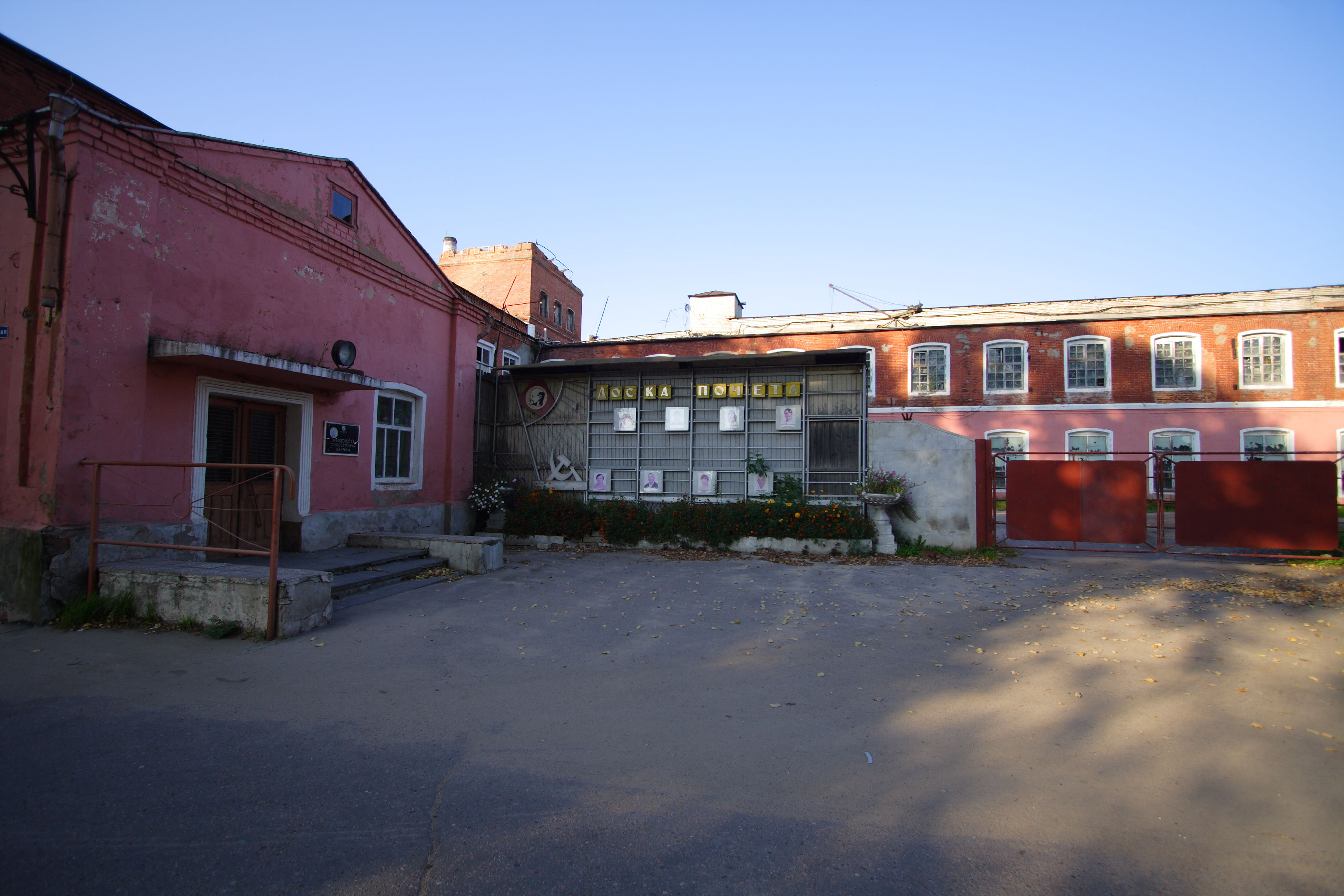 Entrance gates to Zavidovskaya fine cloth factory in Kozlovo.